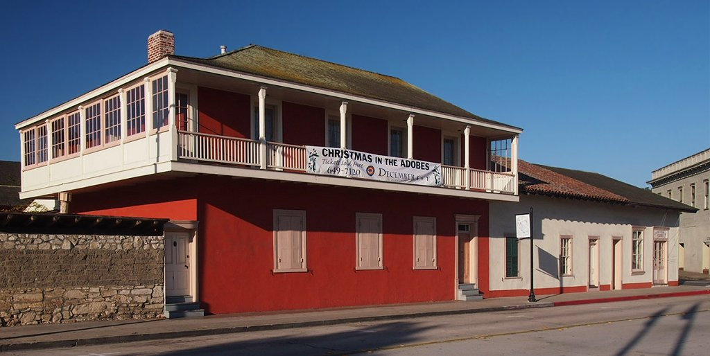 Cooper-Molera Adobe, Monterey State Historic Park, Monterey, California, USA. Viewed from the east.